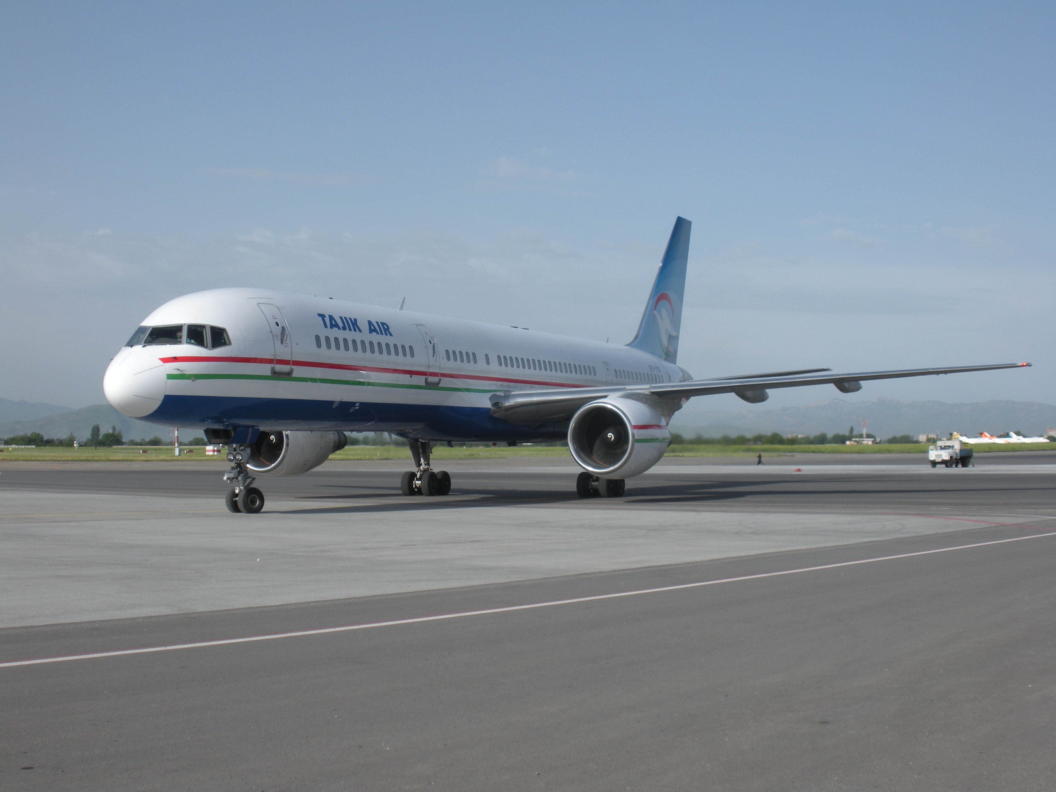 Tajik Air Boeing 757-200